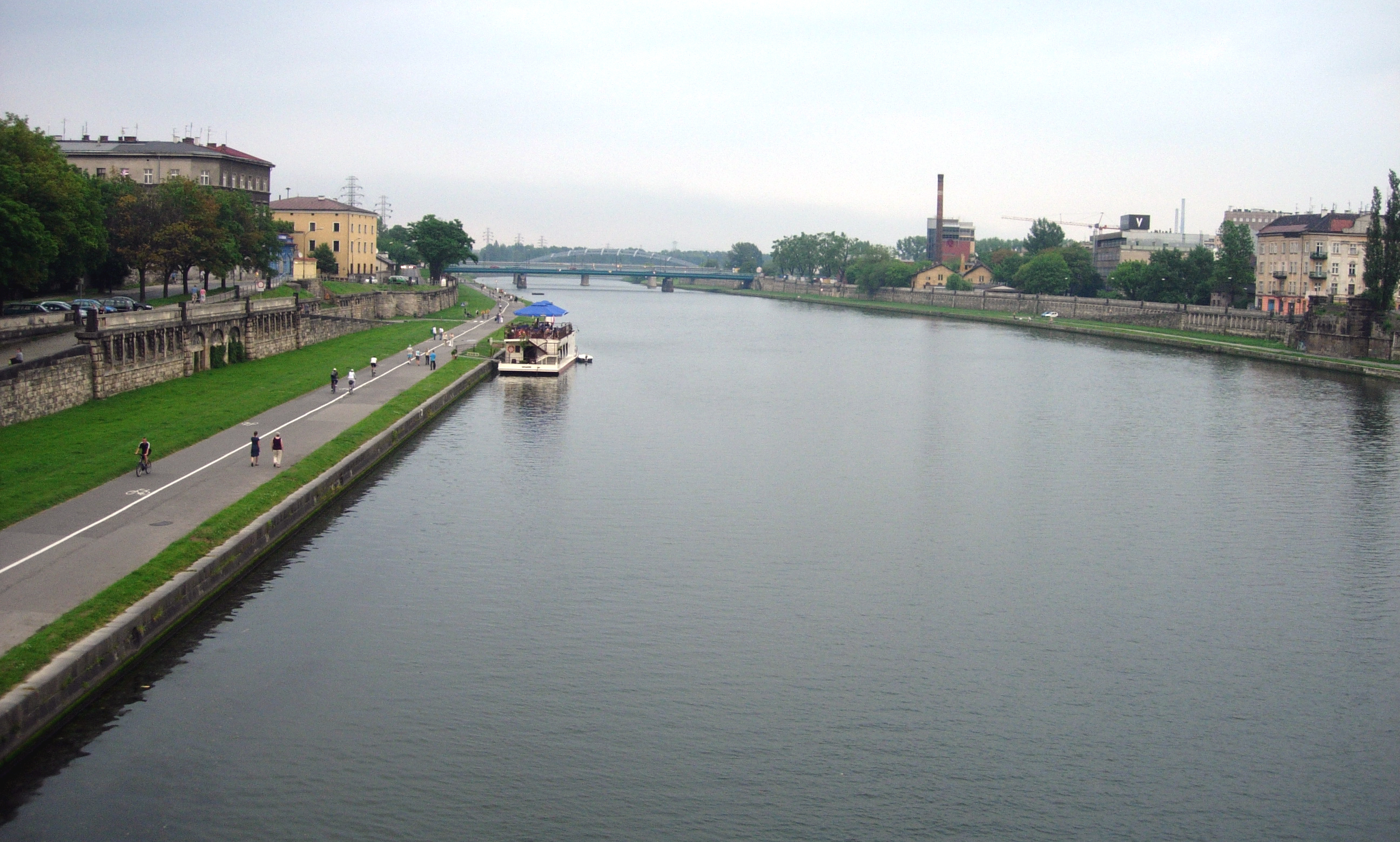 Vistula River in Kraków, Poland. Photograph taken by Mark A. Wilson (Department of Geology, The College of Wooster).[1]